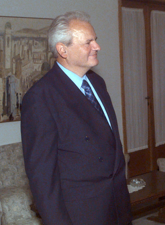 Serbian President Slobodan Milosevic attending a meeting in Belgrade with Admiral T. Joseph Lopez, US Navy, Allied Forces Southern Europe, United States Naval Forces Europe and Commander of the Implementation Forces (IFOR).